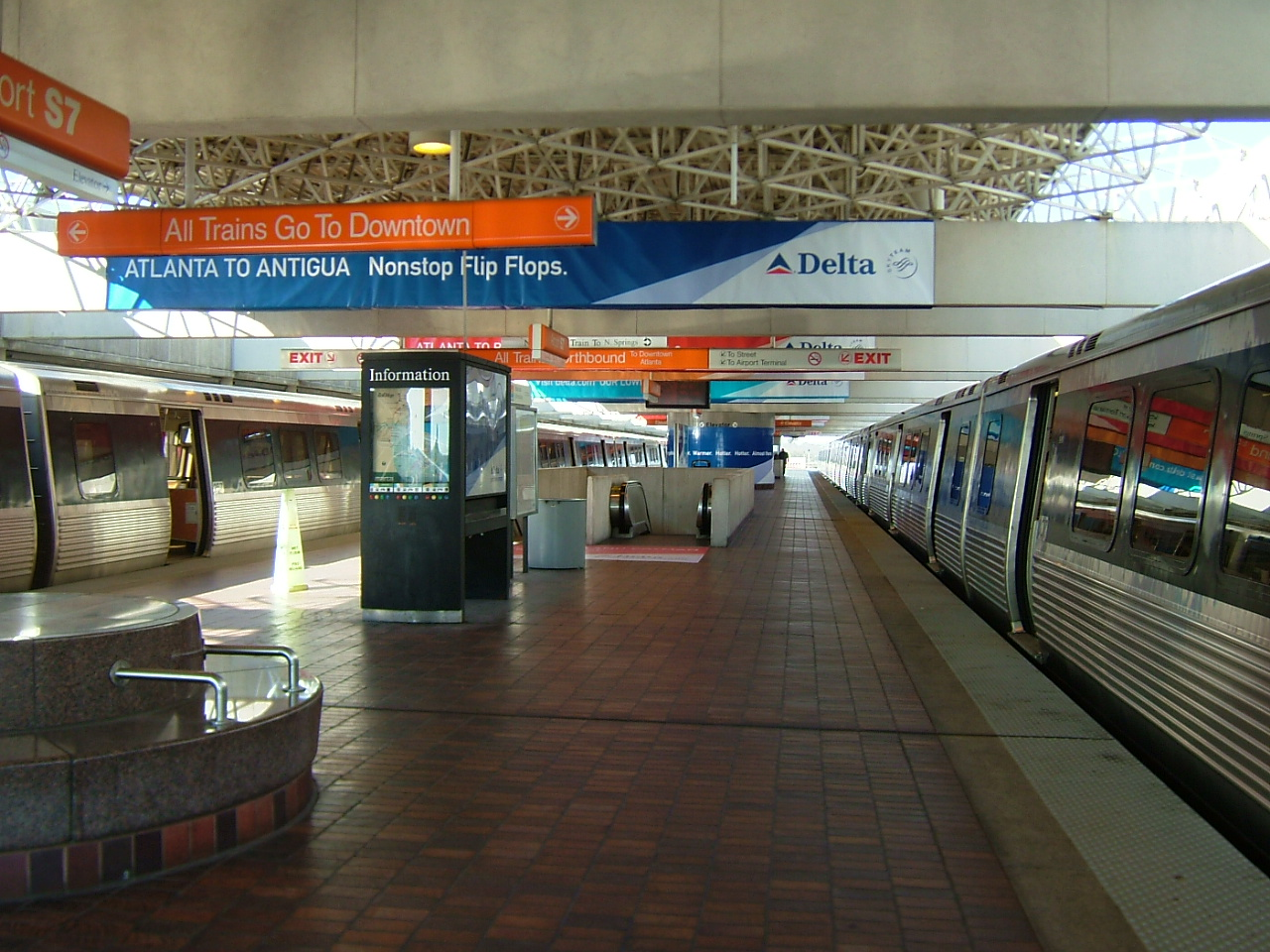 MARTA's Airport Station at the South Airport Terminal of Hartsfield–Jackson Atlanta International Airport, in Atlanta, Georgia, USA.